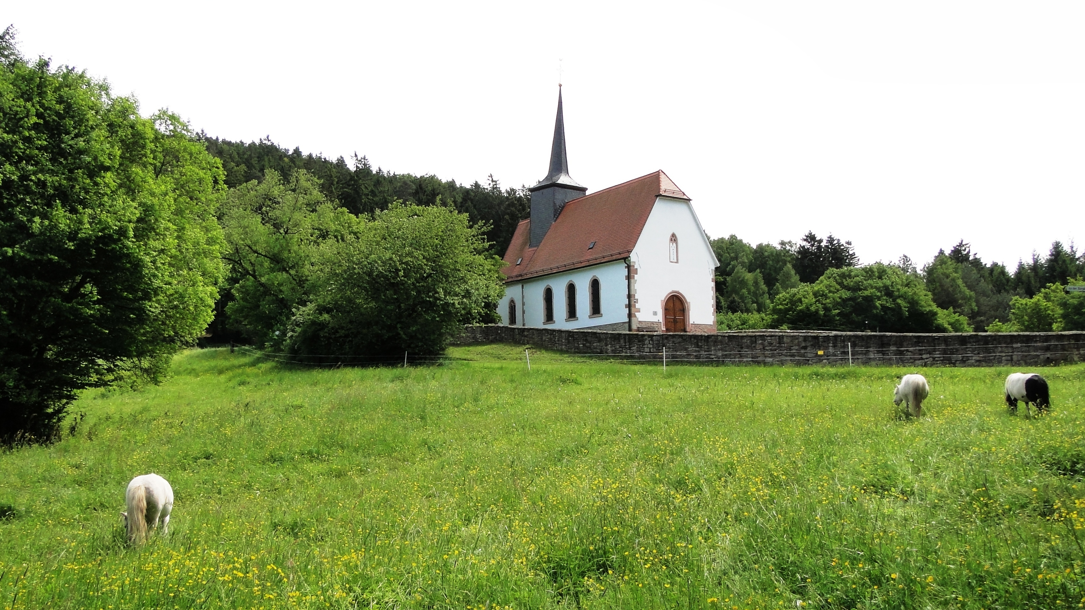 Burgbergkapelle St. Mauritius, Bieber, Bierbergemünd, Hesse, Germany